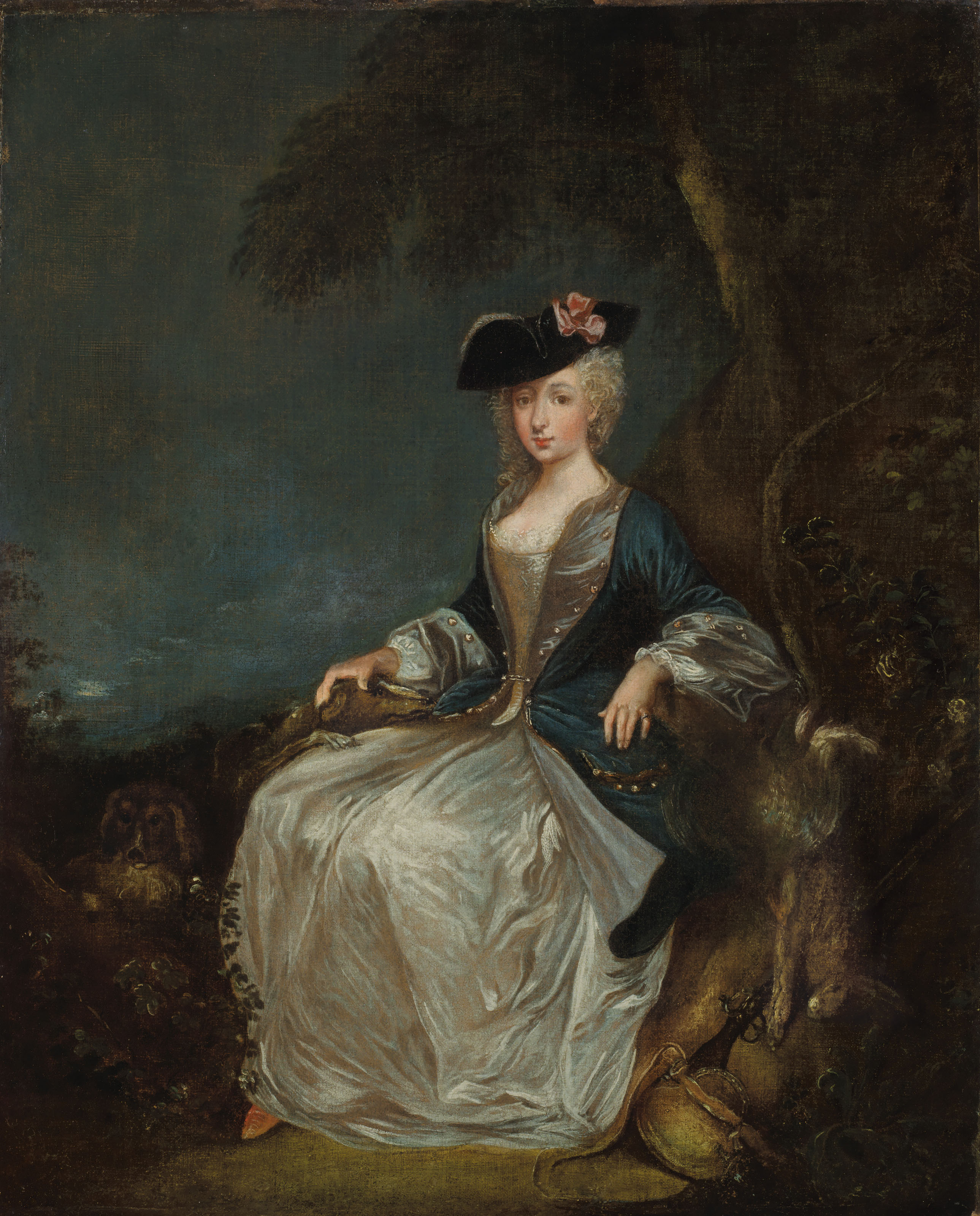 'Retour de Chasse': Portrait of Marie-Louise Sirois (1698-1725), full-length, with two dogs, a musket, hunting bag and game in a landscape